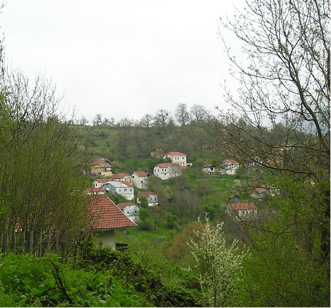 View of a part of the village of Papradishte, Macedonia